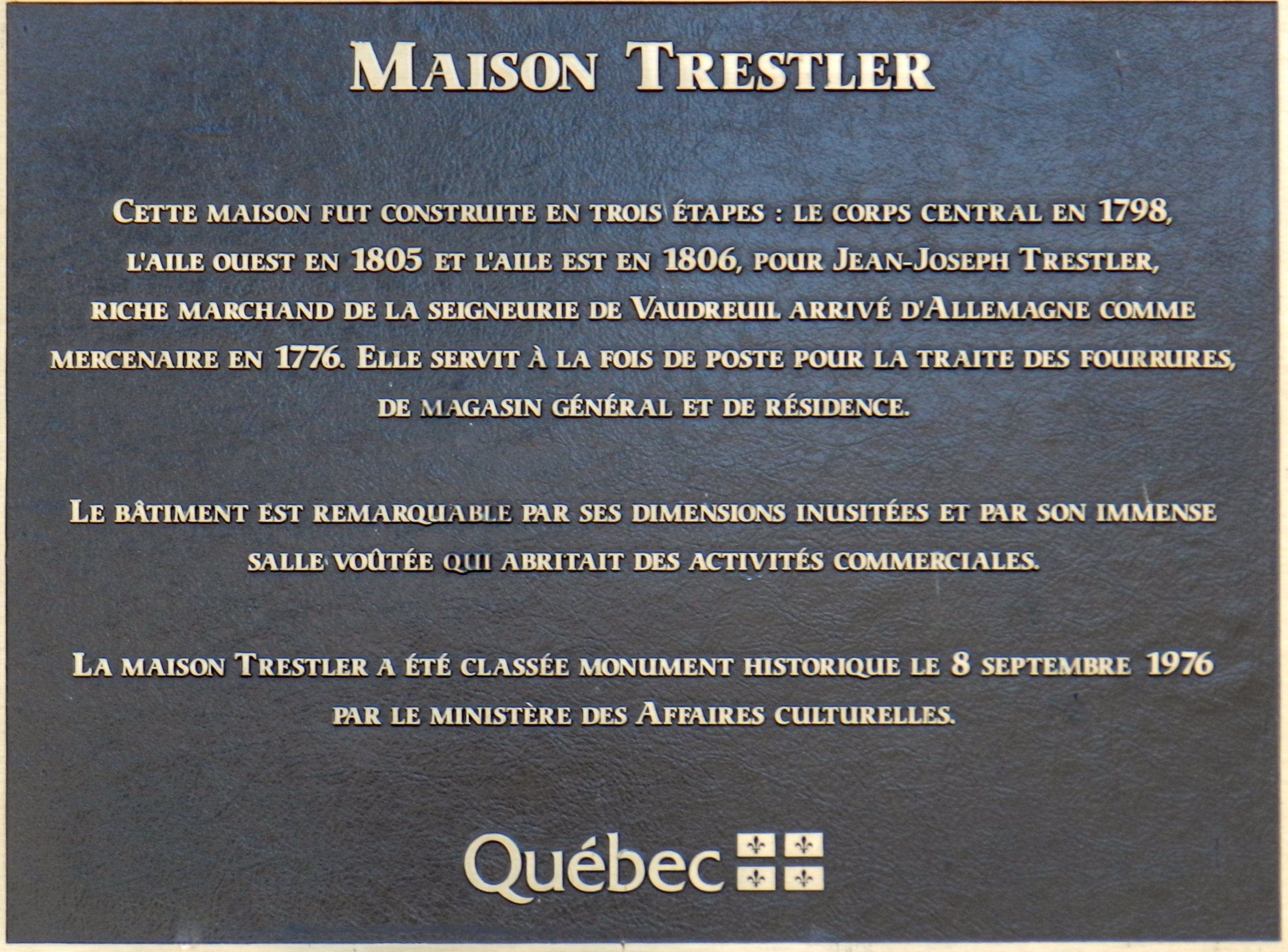 Commemorative on Maison Trestler